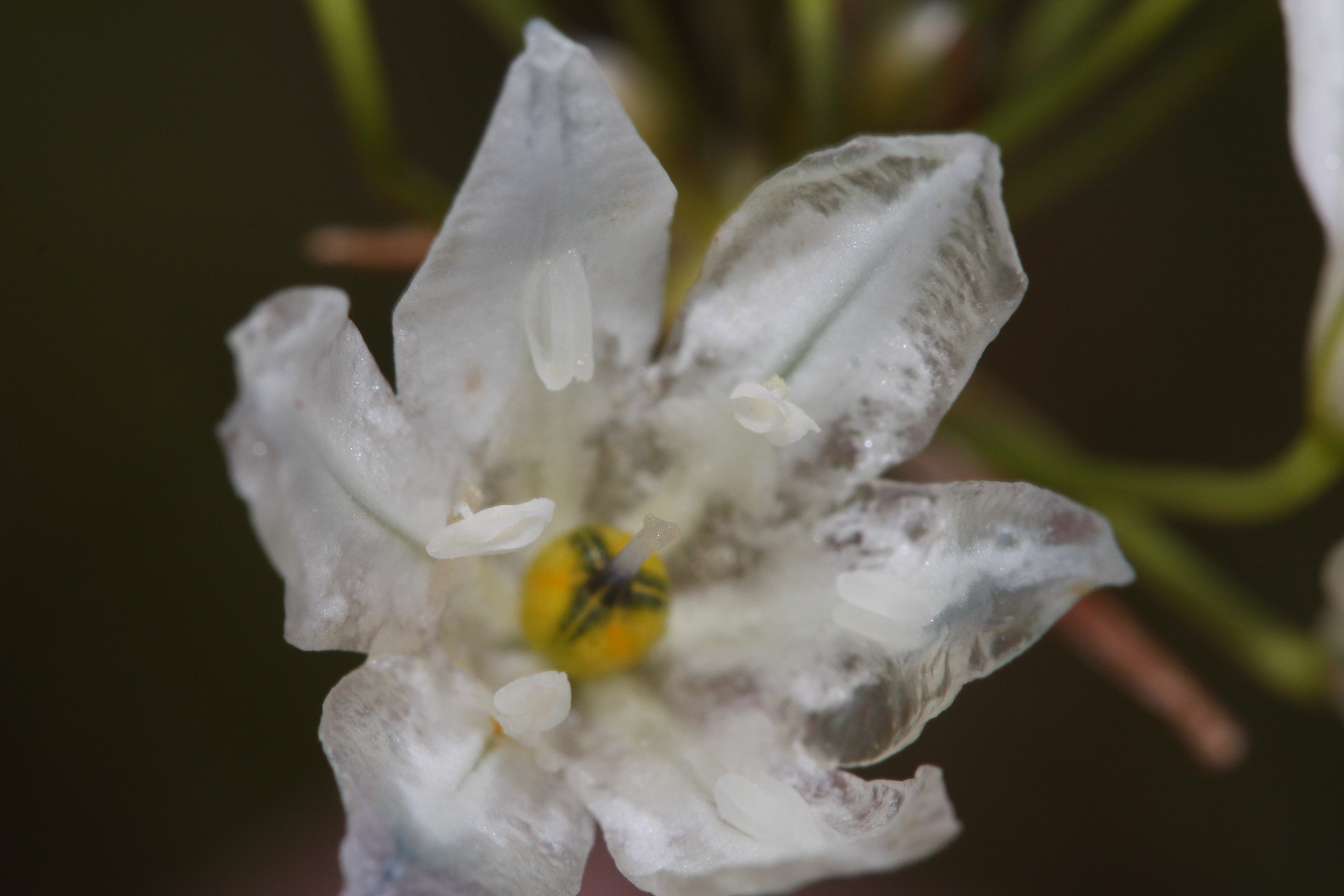 White Triteleia, White Brodiaea, Fool's-onion